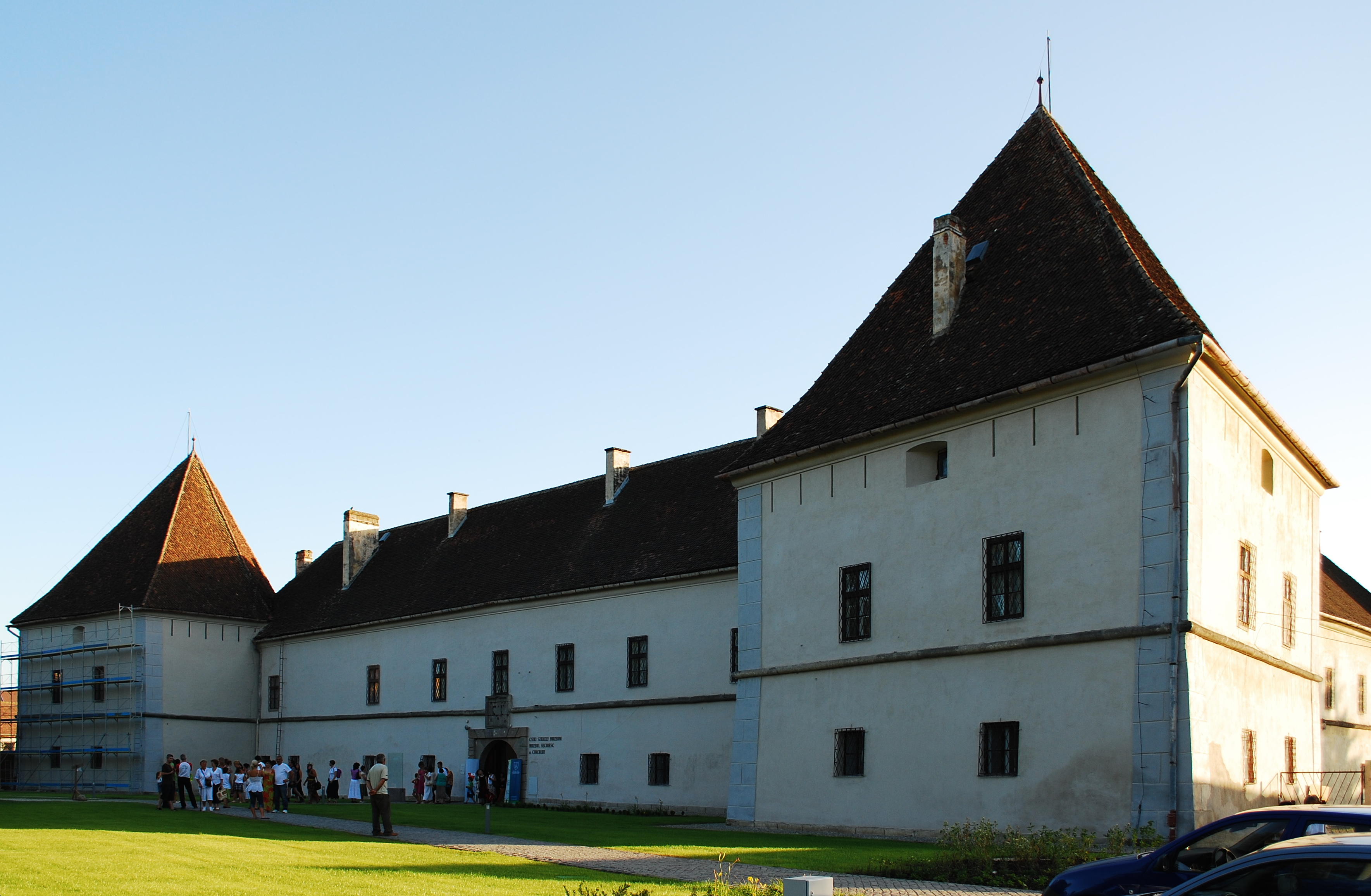 The fortified Mikó castle in Miercurea Ciuc, Harghita, Romania